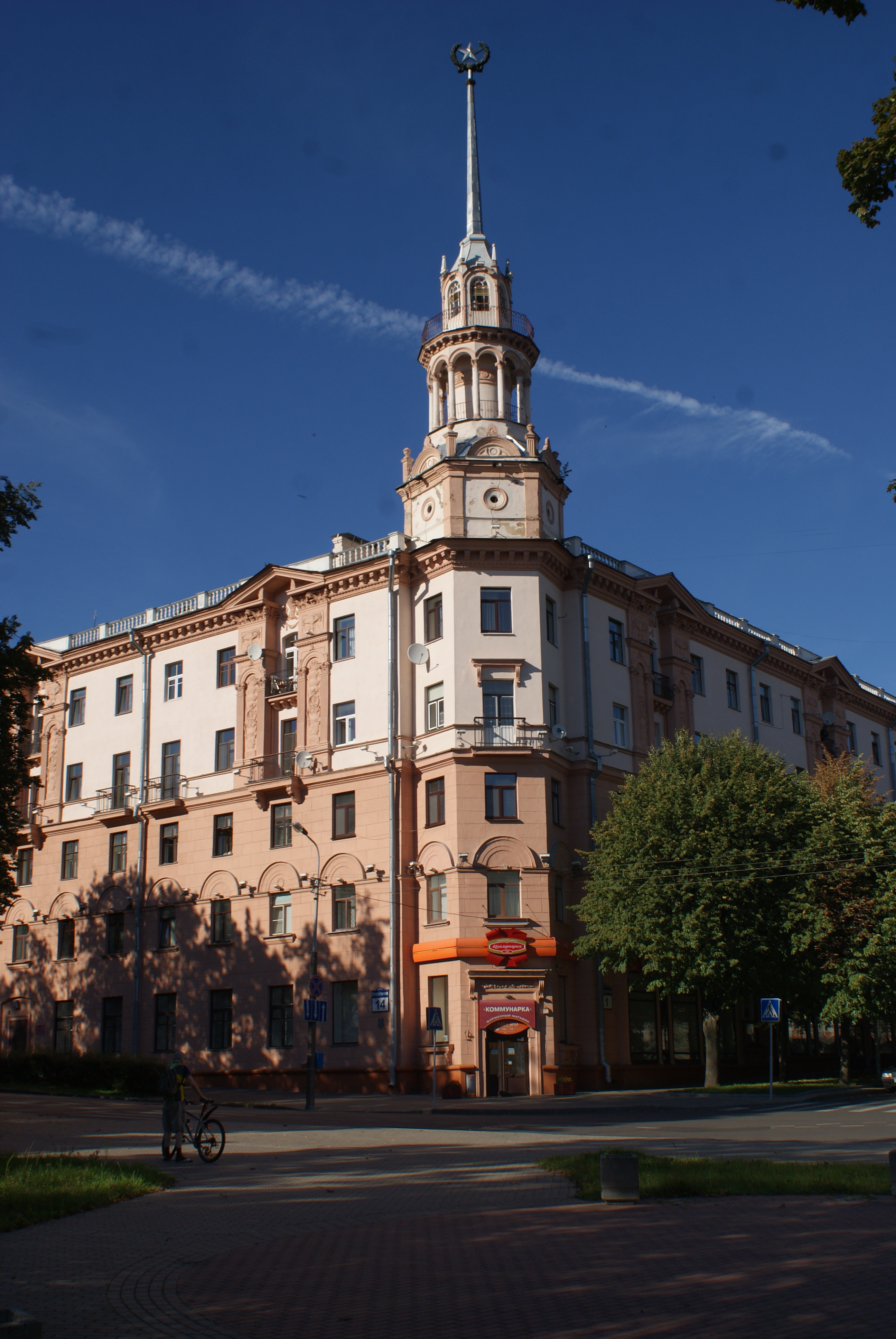 Беларуская (тарашкевіца): Будынак. г. Менск This is a photo of Belarusian heritage monument. Reference number: 713Г000056 ( WLM)